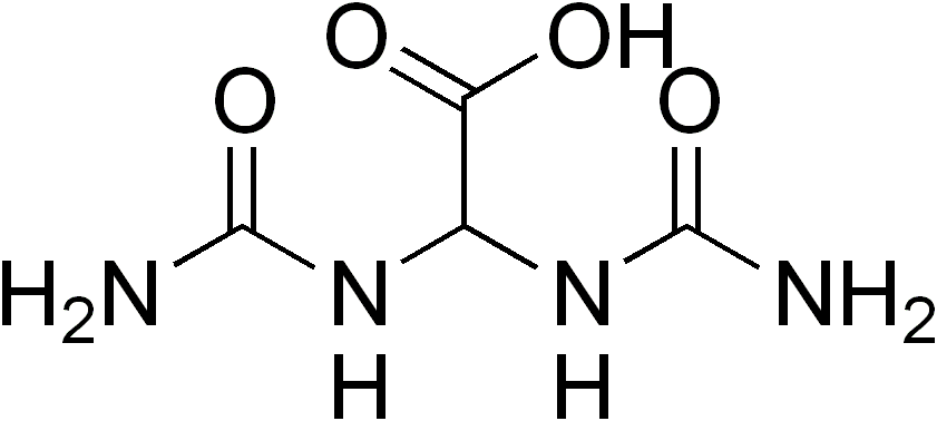 chemical structure of allantoic acid